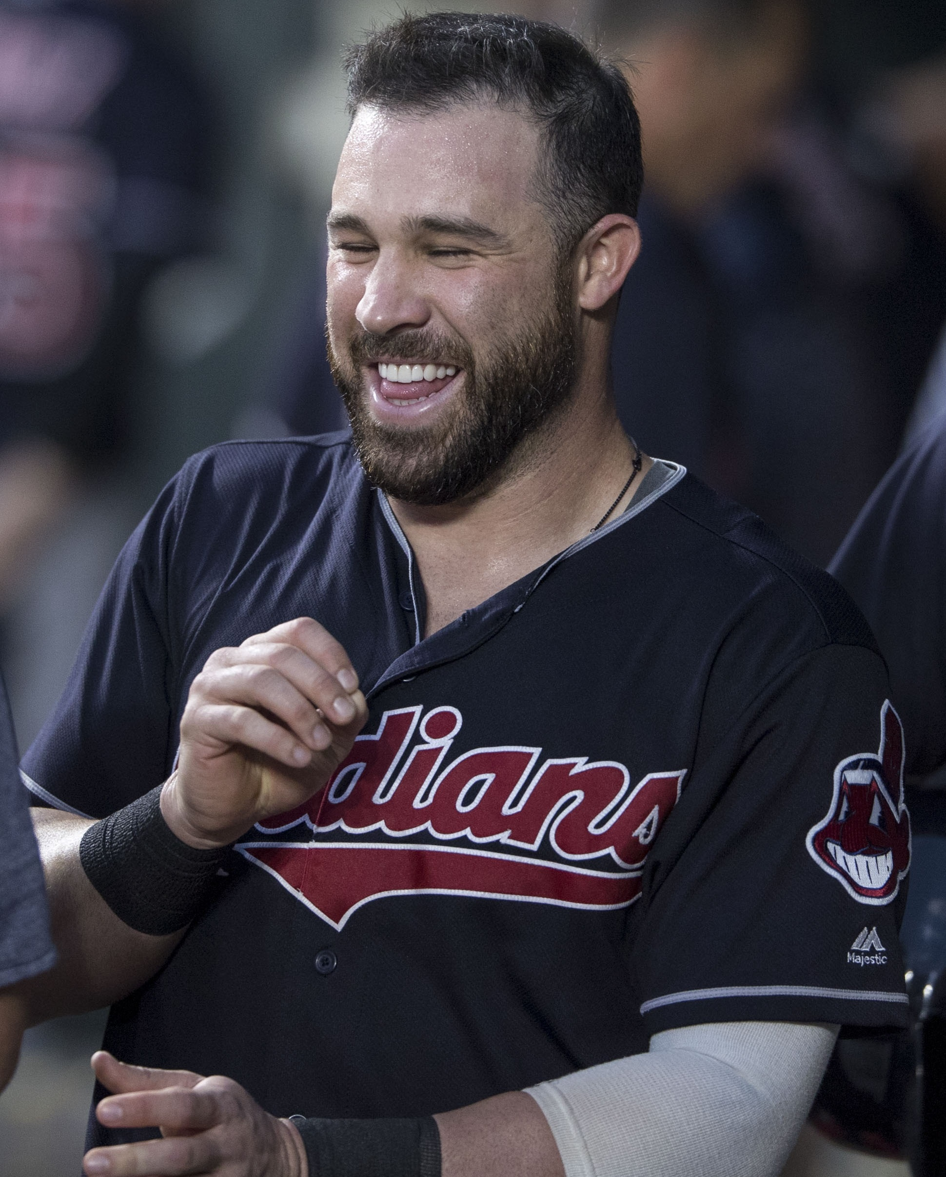 Indians at Orioles 6/22/17